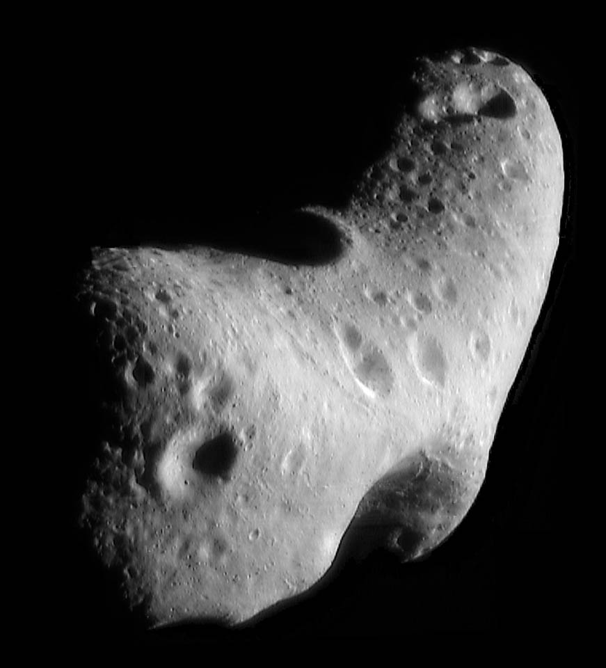 This image, taken by NASA's Near Earth Asteroid Rendezvous (NEAR Shoemaker) mission in 2000, shows a close-up view of Eros, an asteroid with an orbit that takes it somewhat close to Earth. NASA's Spitzer Space Telescope observed Eros and dozens of other near-Earth asteroids as part of an ongoing survey to study their sizes and compositions using infrared light.